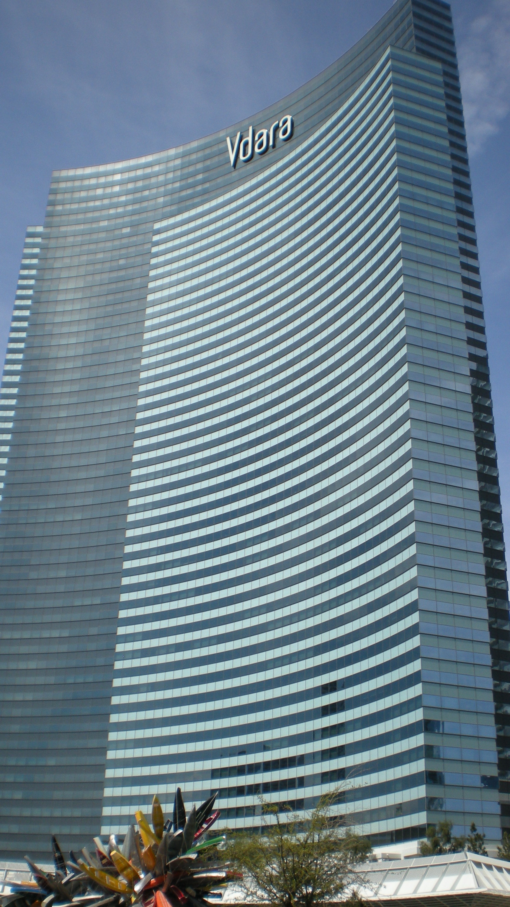 Vdara at CityCenter